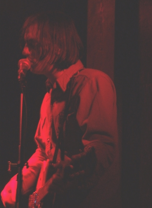 Anton Newcombe